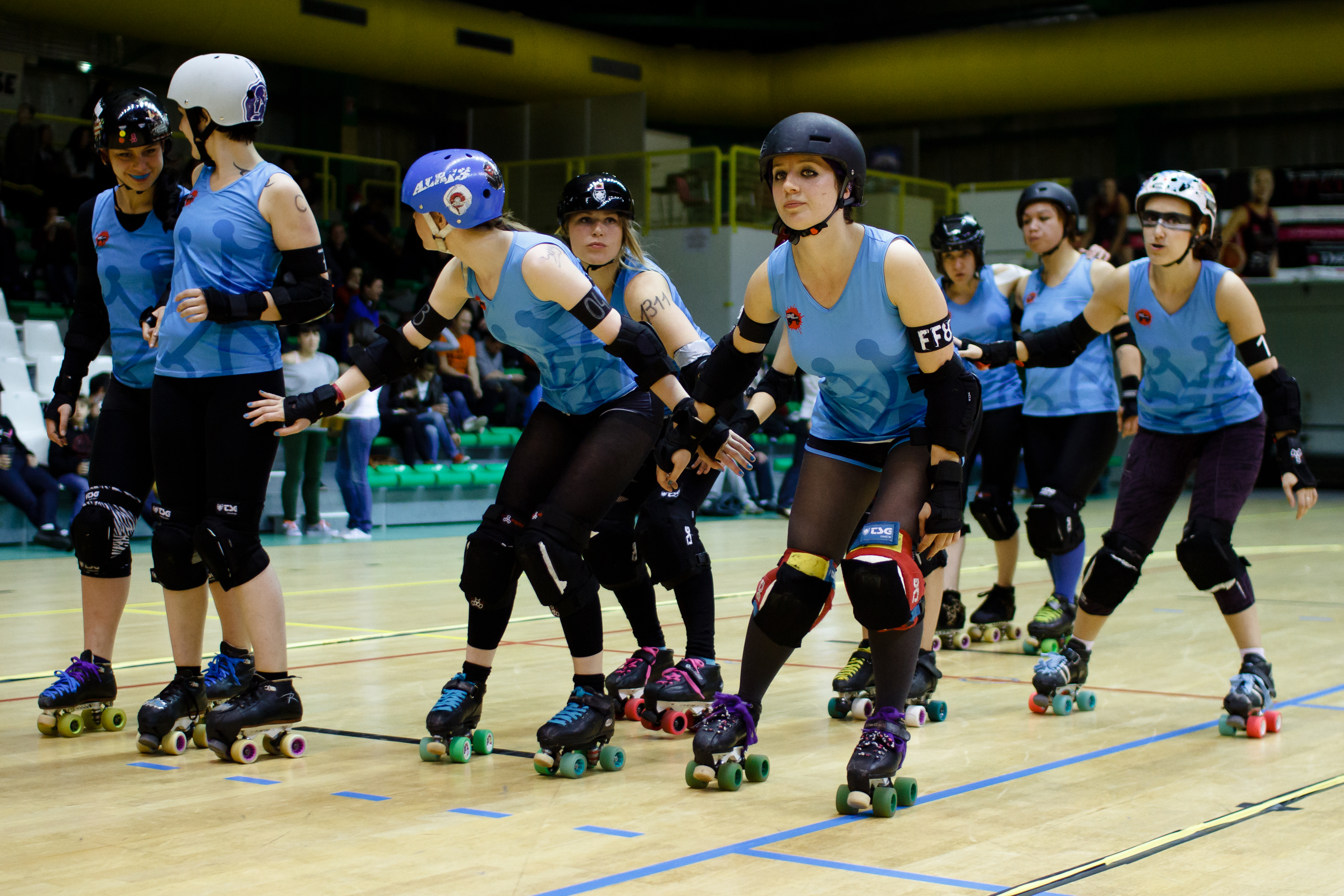 {tournament } — 29 March 2014, Petit palais des sports de Toulouse. Match between: Sheffield Steel Rollergirls — Nothing Toulouse Sheffield Steel Rollergirls vs Nothing Toulouse